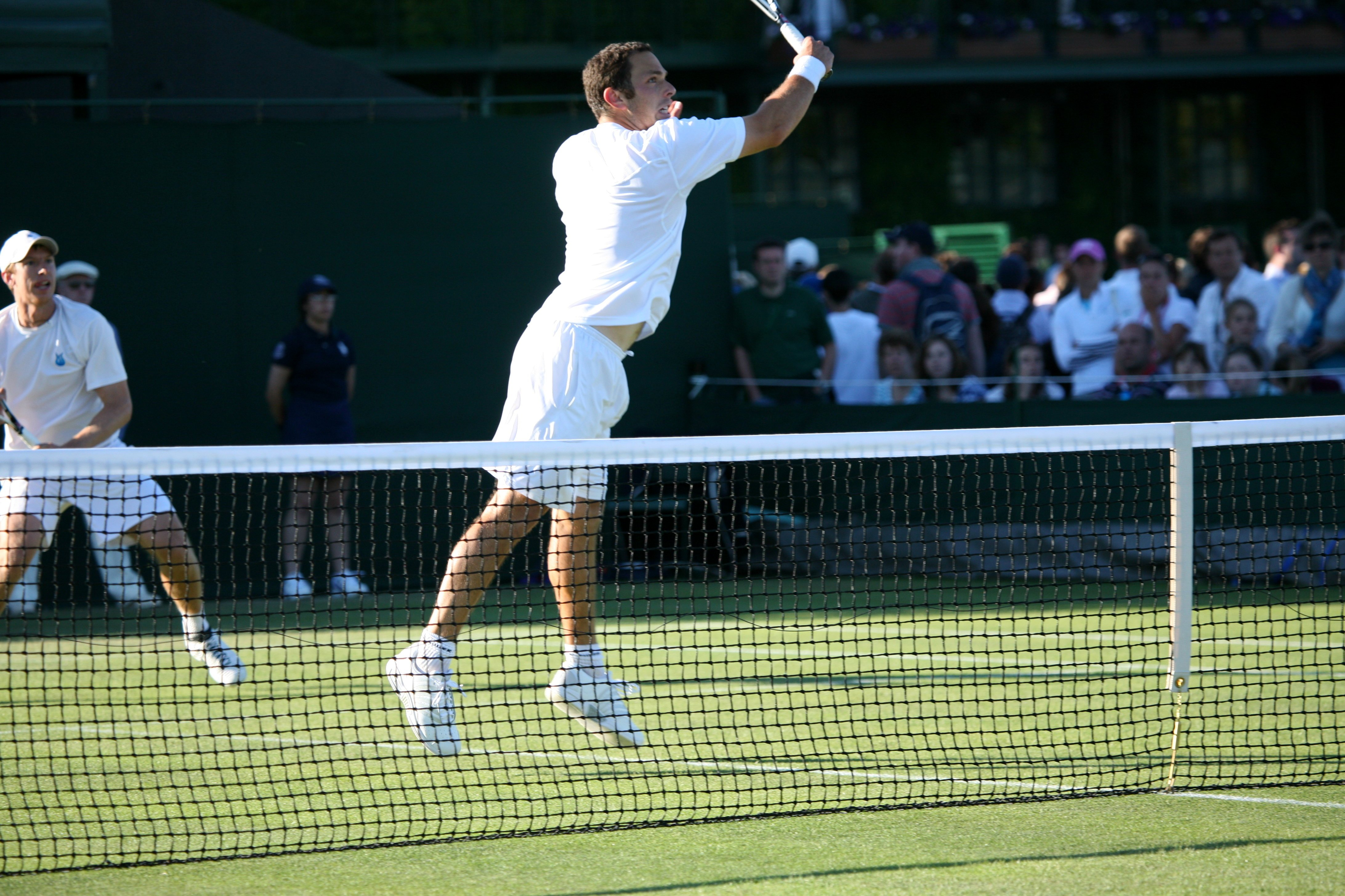 Eric Butorac (left) and Scott Lipsky (right) against Mariusz Fyrstenberg and Marcin Matkowski in the 2009 Wimbledon Championships first round